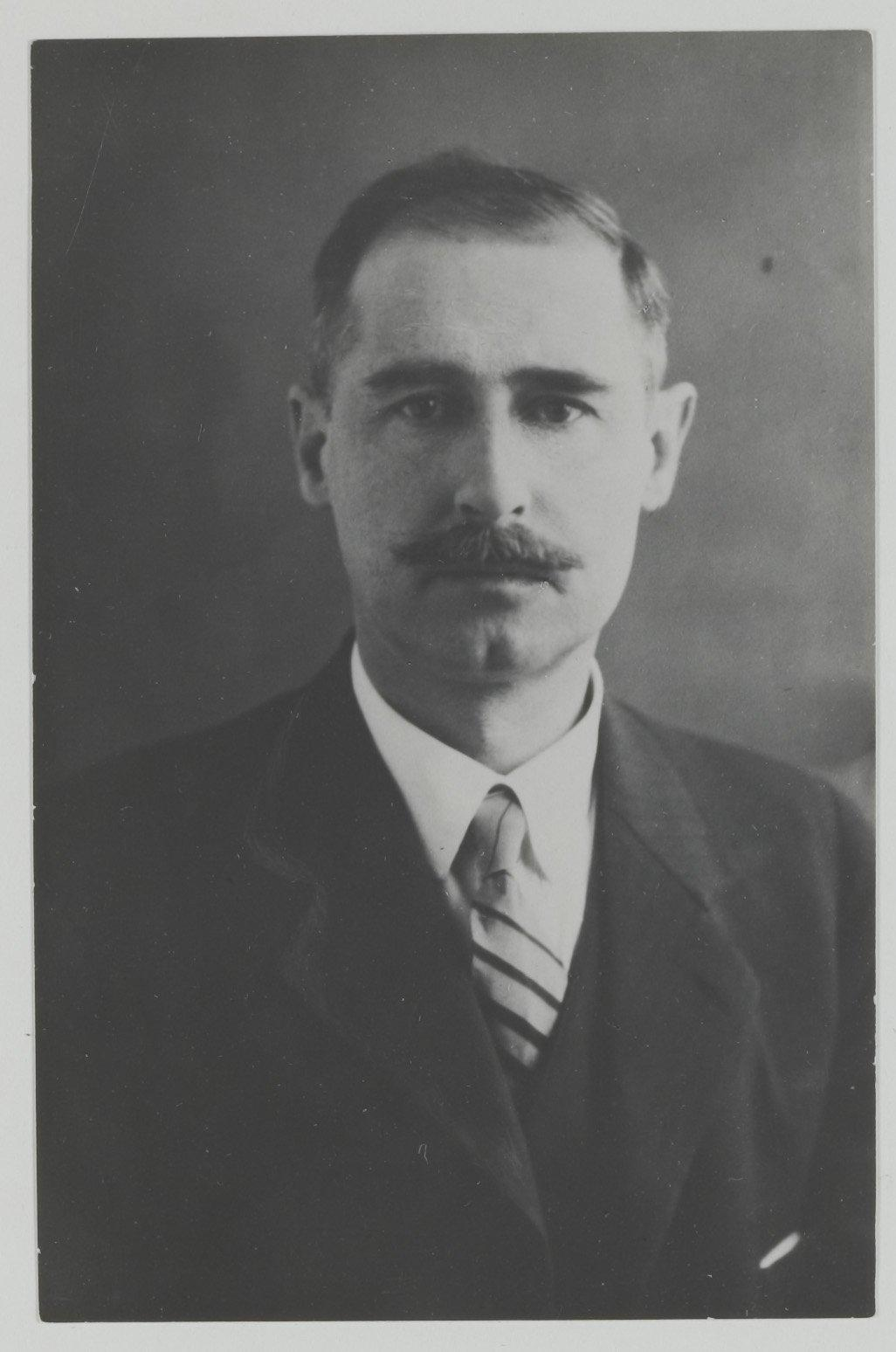 Dutch antropologist J.P.B. de Josselin de Jong (1886-1964) in 1932